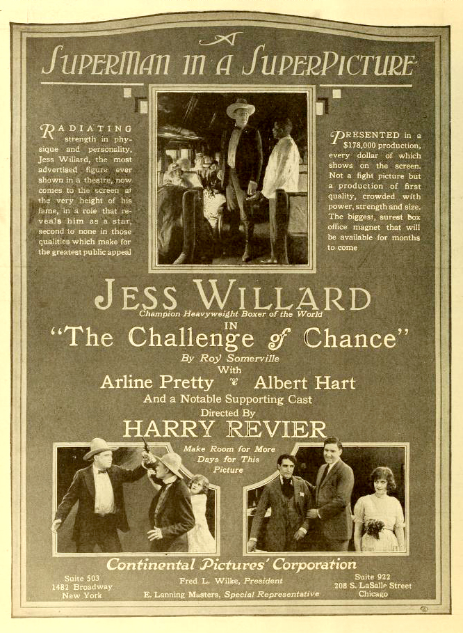 Advertisement for The Challenge of Chance with Jess Wilard. Moving Picture World, June 1919.